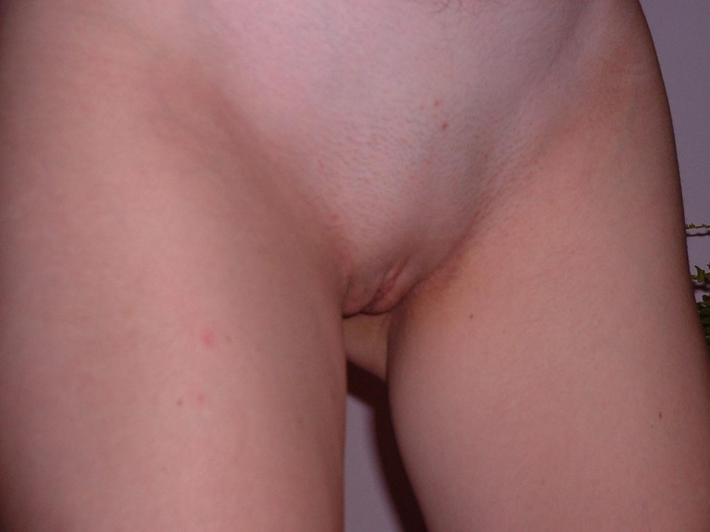 One vulva says more than a thousand words. Be courageous - post your poontang.